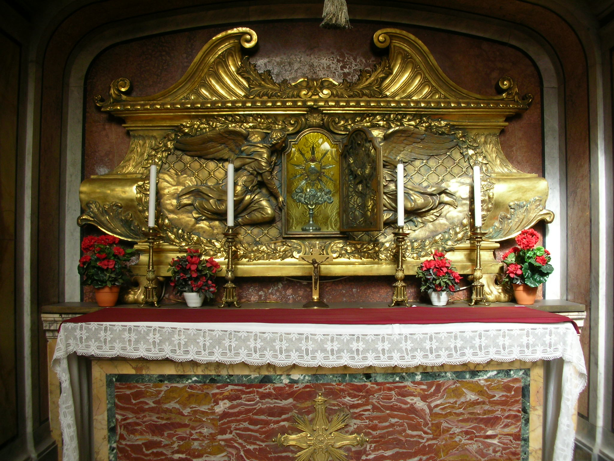 Charles Borromeo's Heart, San Carlo al Corso, Rome.